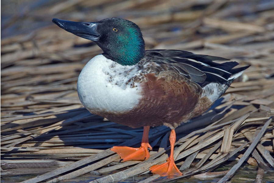 Northern Shoveler (Male) (Anas clypeata), Birding Center, Port Aransas, Texas